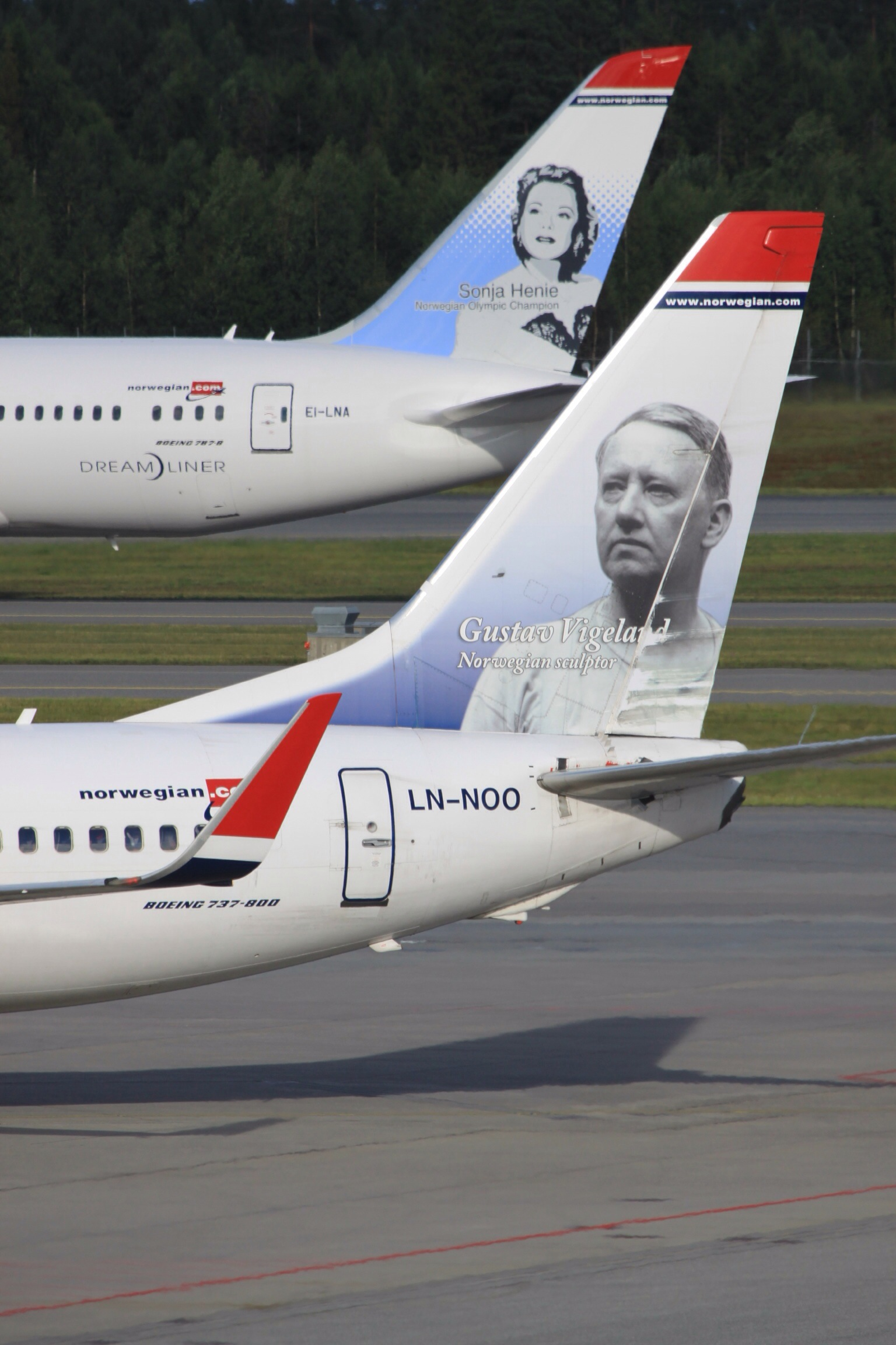 At Oslo Gardermoen